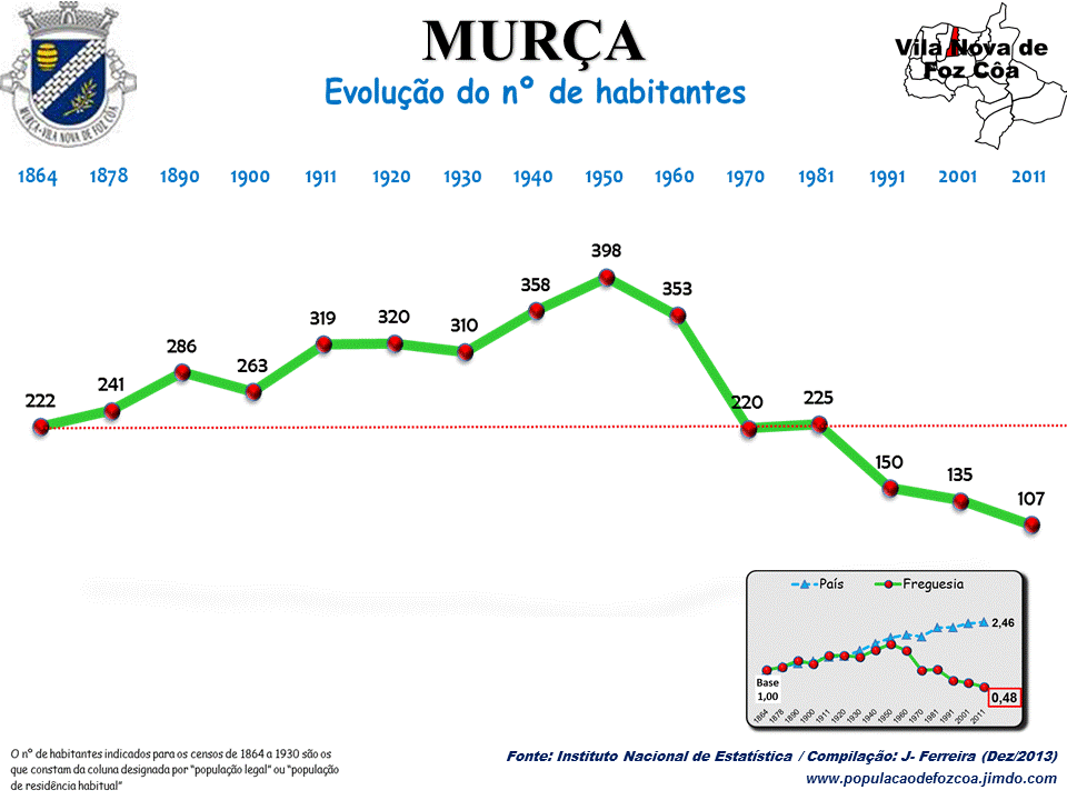 Evolução da População 1864 / 2011